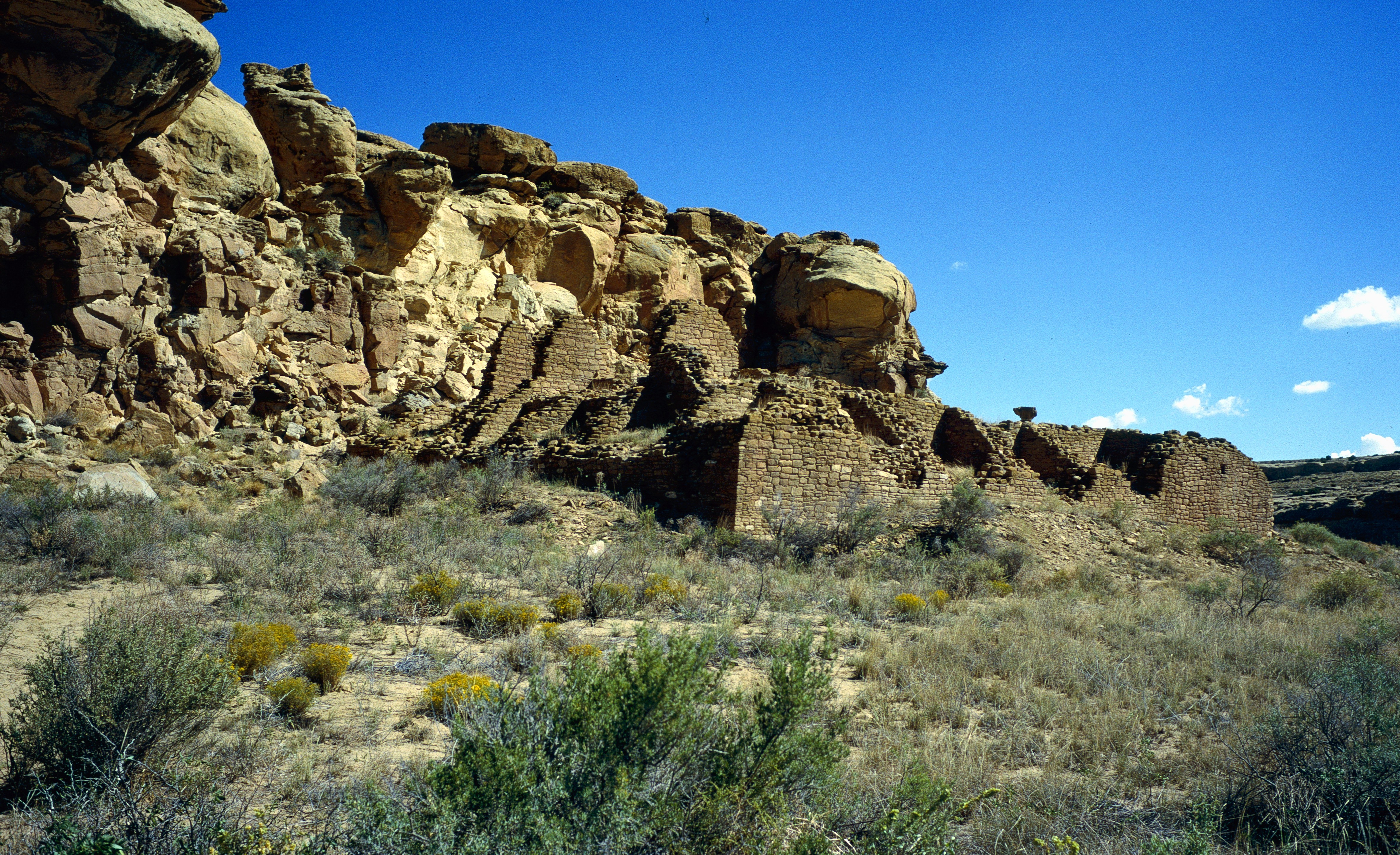 Casa Chiquita, Chaco Canyon, New Mexico, U.S.A.